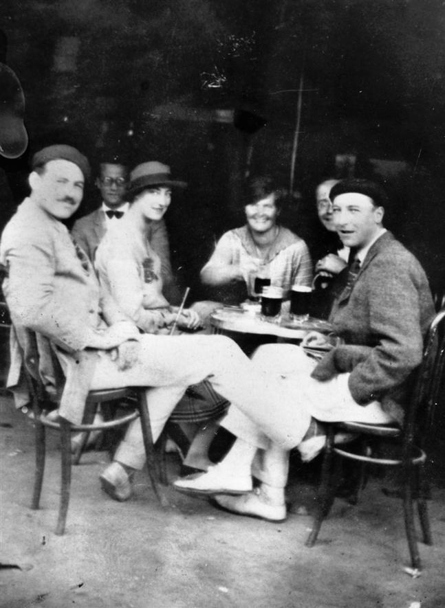 Ernest Hemingway seated in 1925 with the persons depicted in the novel "The Sun Also Rises." The individuals depicted include Hemingway, Harold Loeb, Lady Duff Twysden; and Hadley Richardson, Ogden Stewart and Pat Guthrie. Original caption is "Ernest Hemingway with Lady Duff Twysden, Hadley Hemingway, Lonnie Schutte and three unidentified people at a cafe in Pamplona, Spain, during the Fiesta of San Fermin in July 1925."